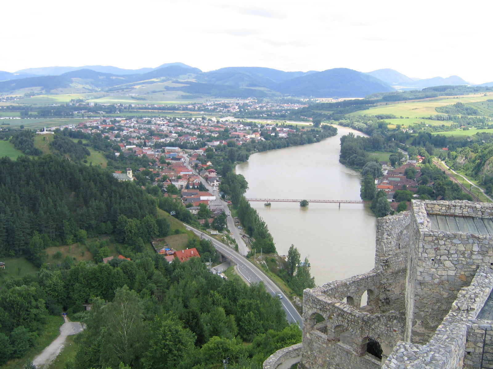 Slovakia, View on Strečno village from castle, july 2006